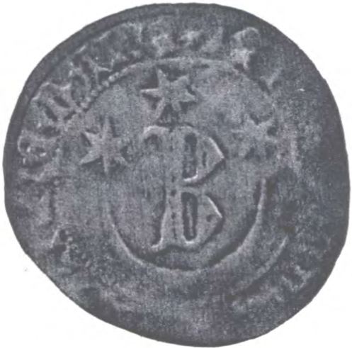 Seal of Bełżyce XV cent